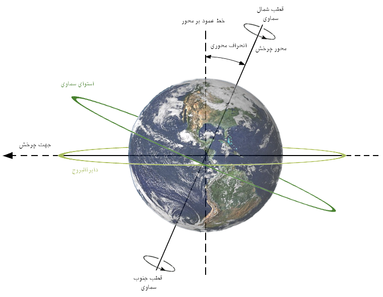 Description of relations between Axial tilt (or Obliquity), rotation axis, plane of orbit, celestial equator and ecliptic. Earth is shown as viewed from the Sun; the orbit direction is counter-clockwise (to the left).